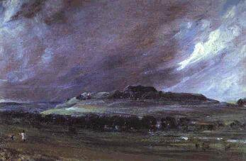 Old Sarum in Wiltshire, an uninhabited hill which elected two Members of Parliament. Painting by John Constable, 1829.